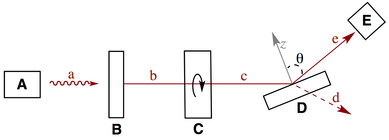 PM-IRRAS instrument : A, infrared source ; B, polarization device ; C, phase modulator ; D, sample ; E, detector ; a, raw IR beam ; b, polarized IR beam ; c, phase modulated IR beam ; d, diffracted beam ; e, reflected IR beam ; θ, incidence angle.